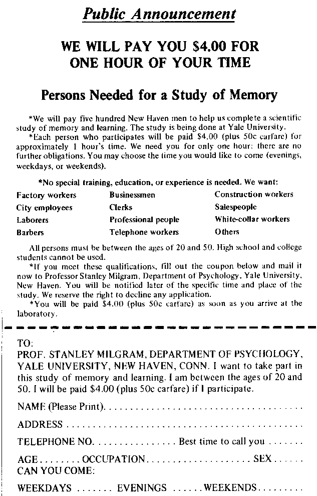 Advertisement for the recruiting of the Milgram experiment subjects. The original GIF was losslessy compressed to PNG (it was in public domain).